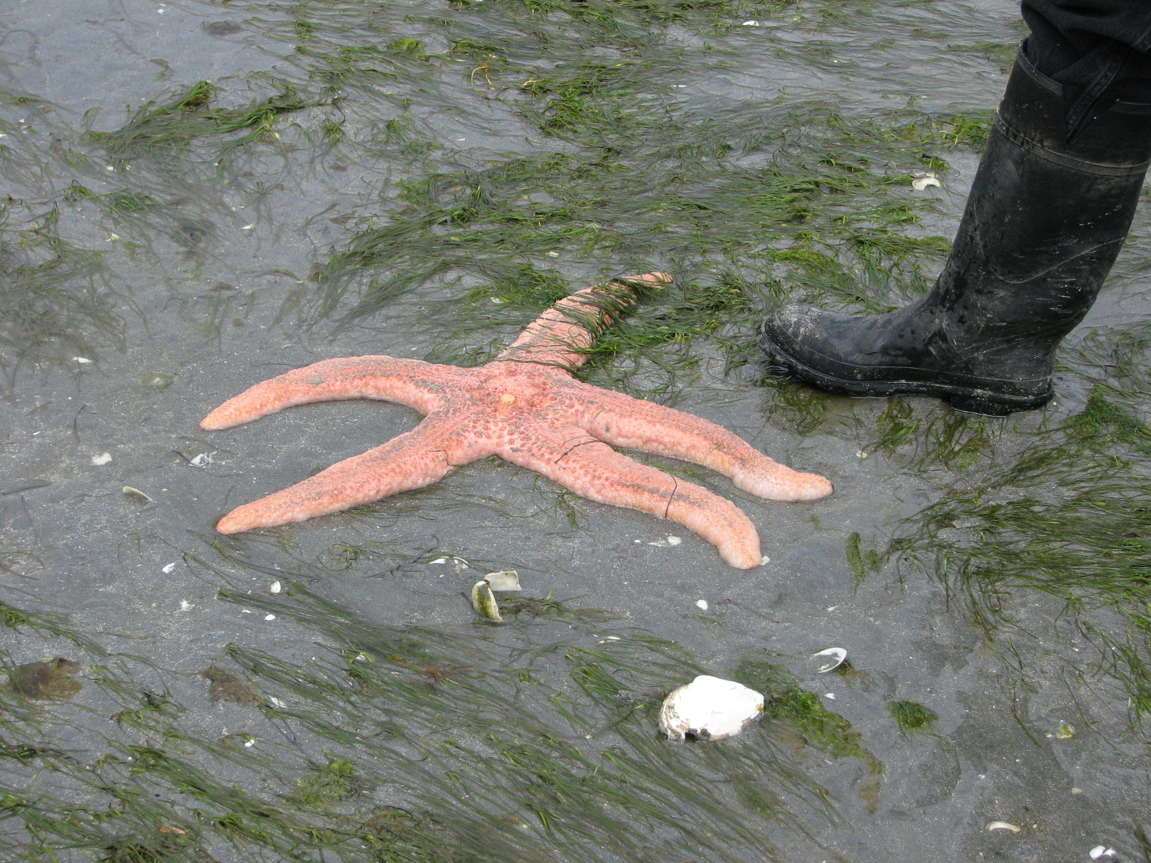 Giant Pink Seastar (Pisaster brevispinus), Ganges Harbour, Salt Spring Island, British Columbia